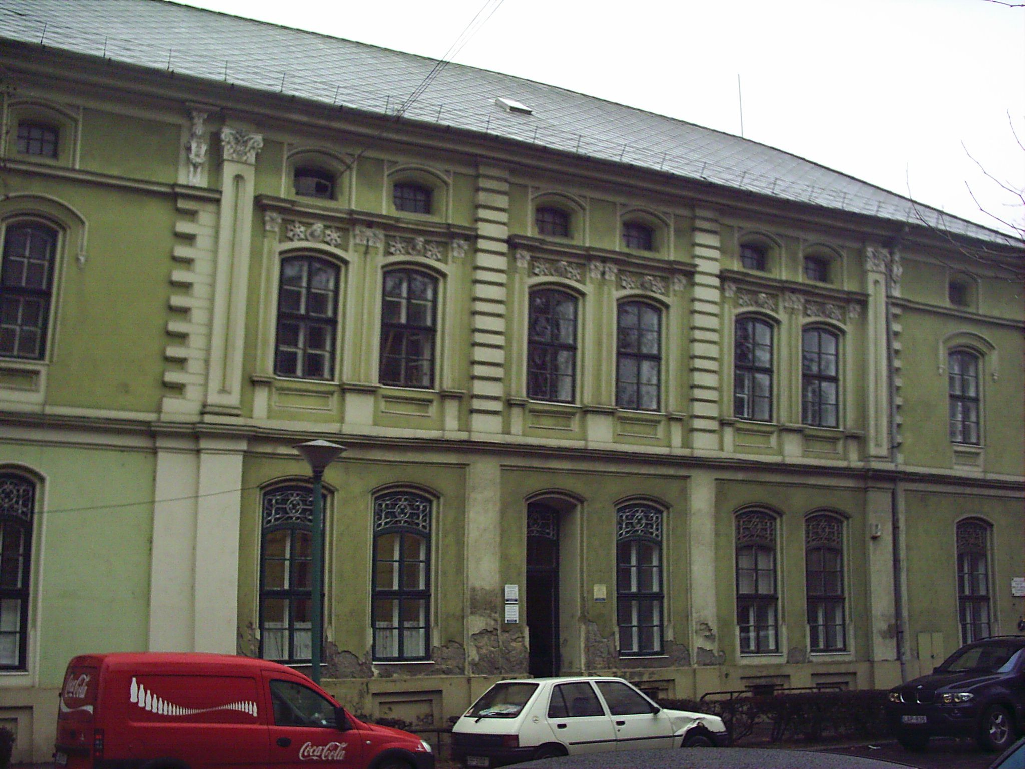 Holló-house. Address Kiskunfélegyháza Korona u. 4 This is a photo of a monument in Hungary, Identifier: 2286